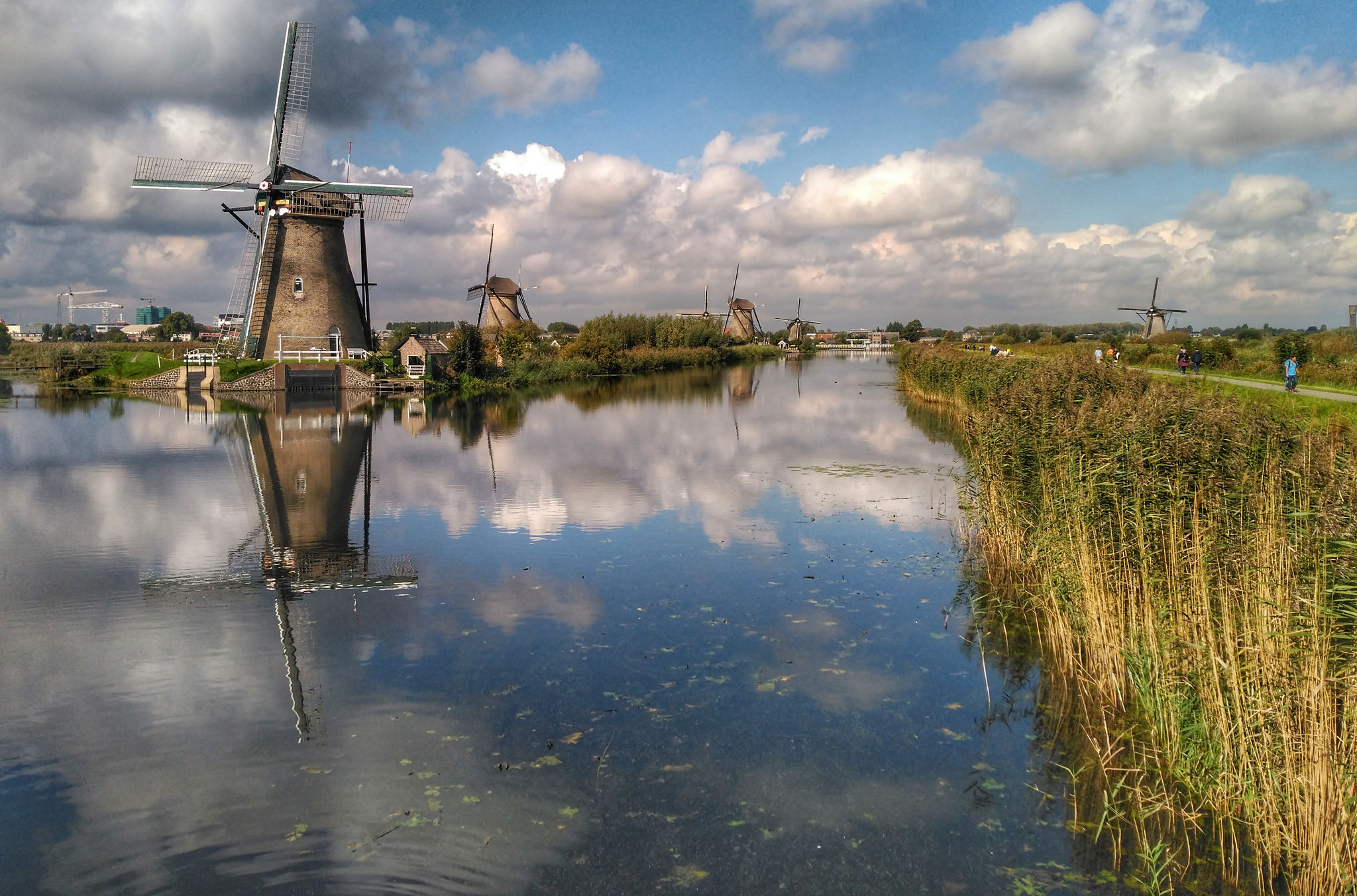 Kinderdijk windmills with reflections